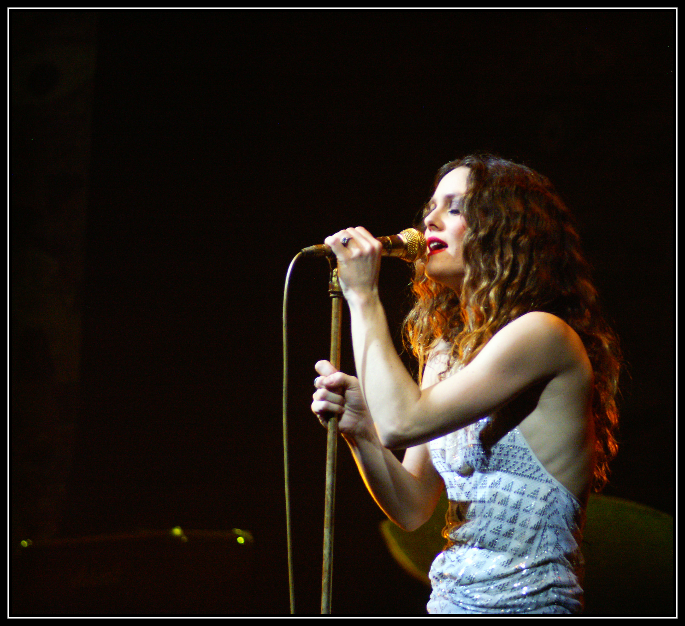 Vanessa Paradis live at Châteauroux (France).Vanessa Paradis @ Tarmac (Châteauroux)